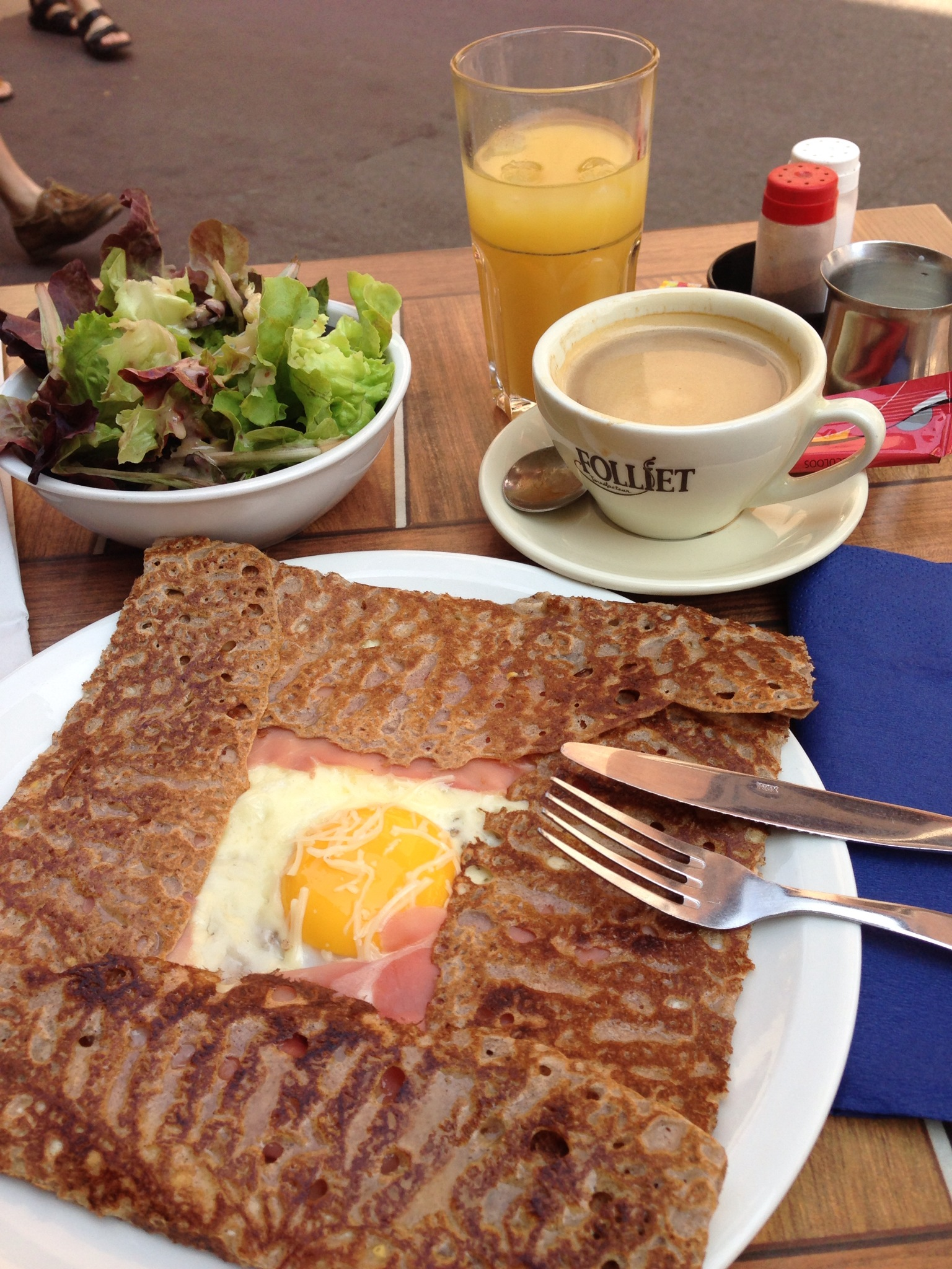 A galette complète, a type of Breton galette (galette bretonne) with ham, a fried egg and cheese, in Annecy, Haute-Savoie, France.